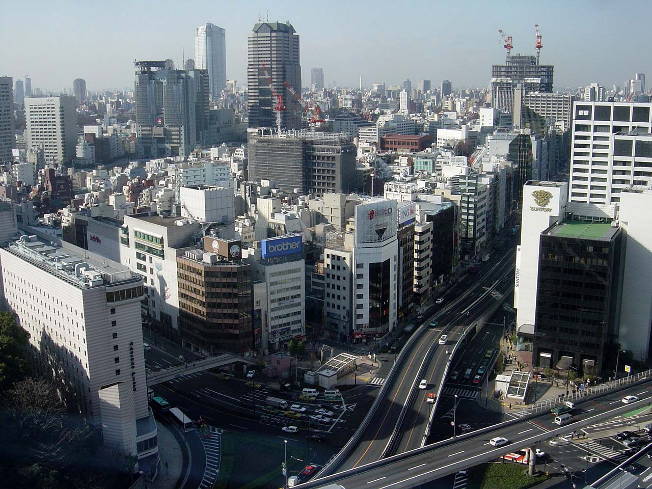 Photo taken by Bobak Ha'Eri. March 2005. Please observe license and properly cite in use outside Wikipedia.